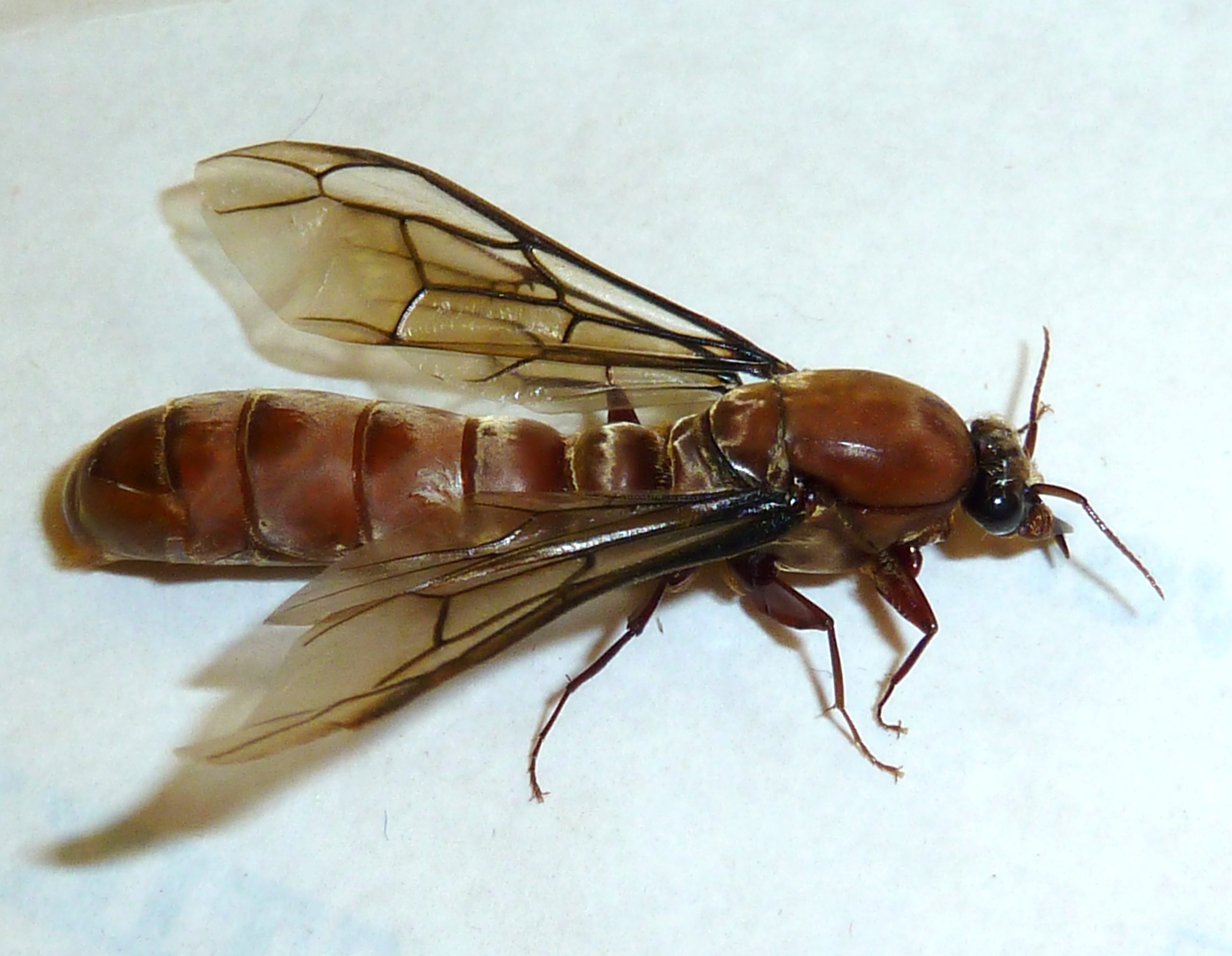 Driver ant of the male caste at Seringveld near Pretoria